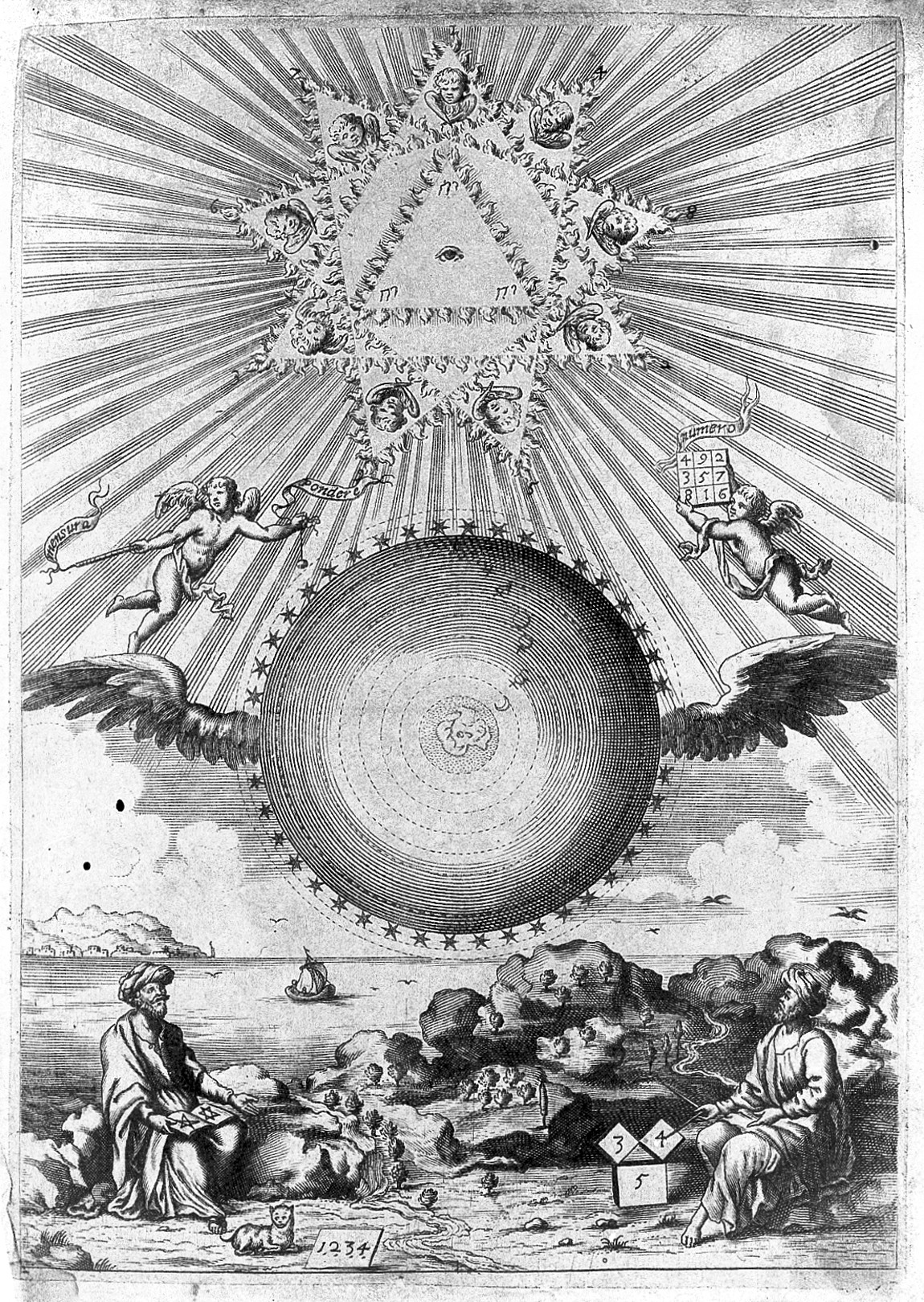 Arithmologia, engraved titlepage. Rare Books Keywords: Athanasius Kircher